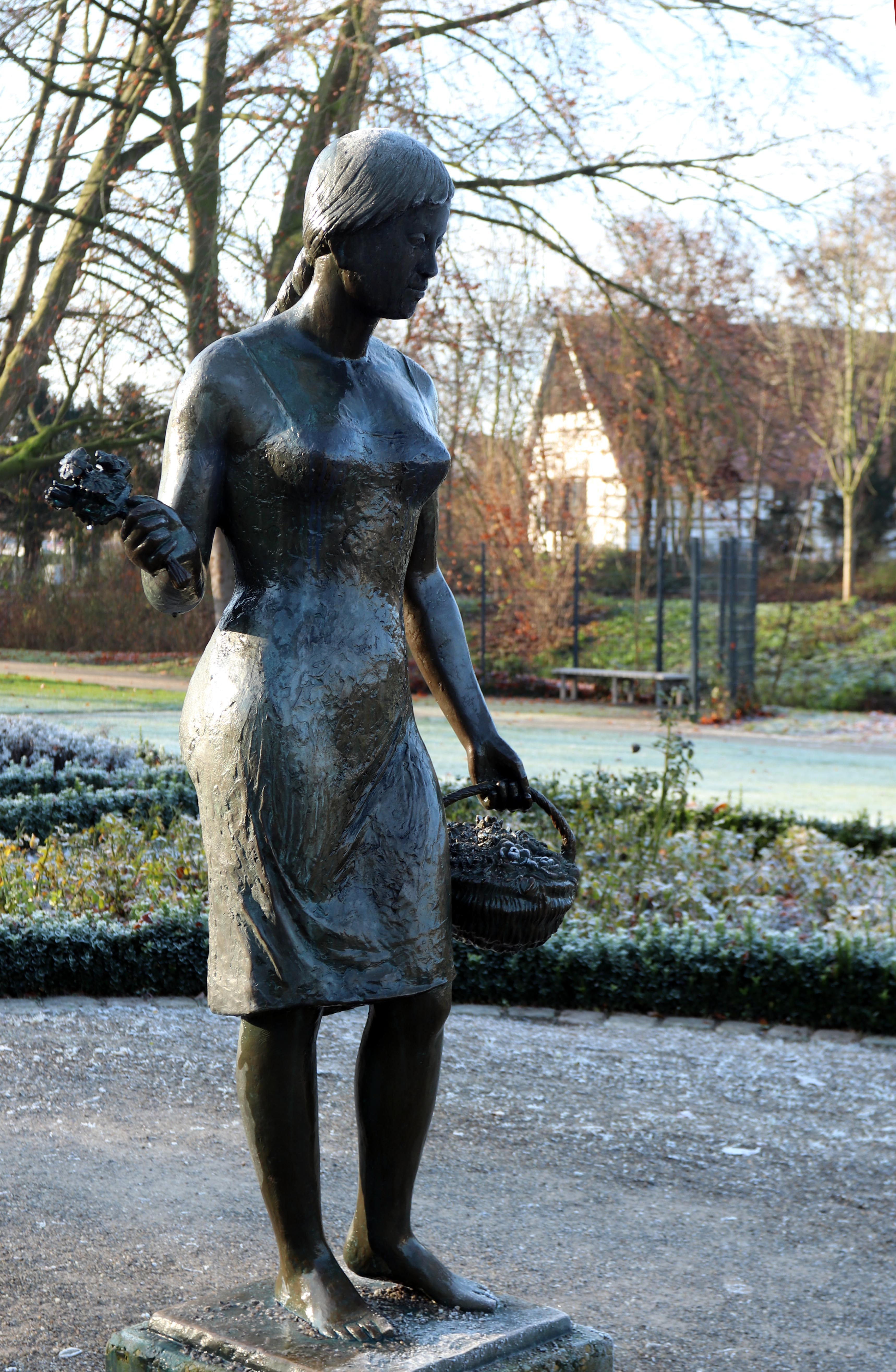 Pigtailed flower girl. Bronze statue (1988) by Hubert Hartmann. Rheda-Wiedenbrueck.